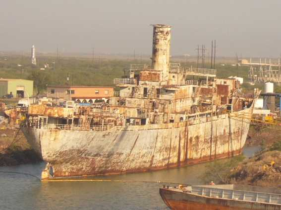 Photo of SS MAritime Victory at Brownsville, TX as she awaits scrapping, June 2006. photo credit Steve Hilsz.